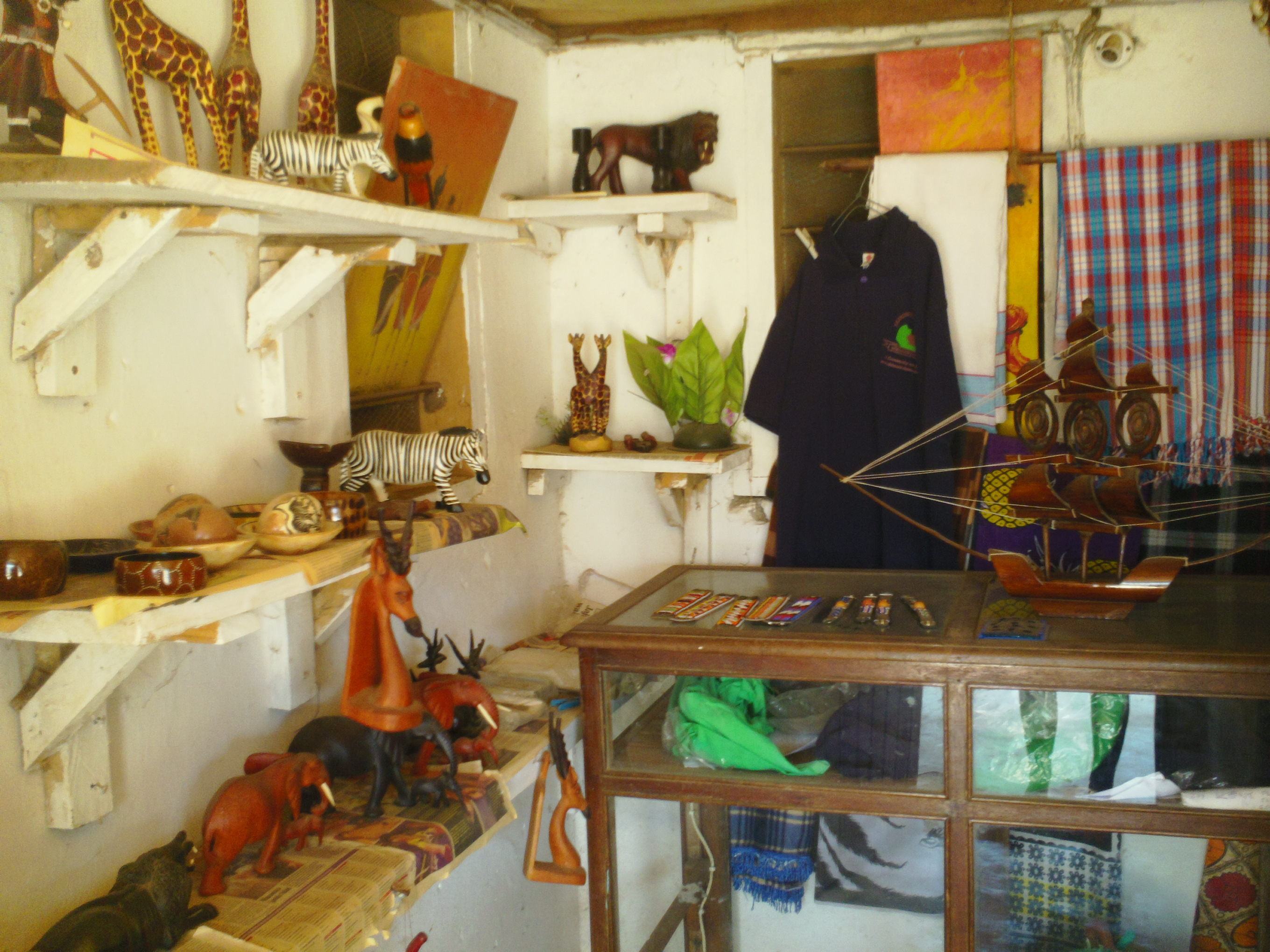 The slave caves gift shop in Shimoni.